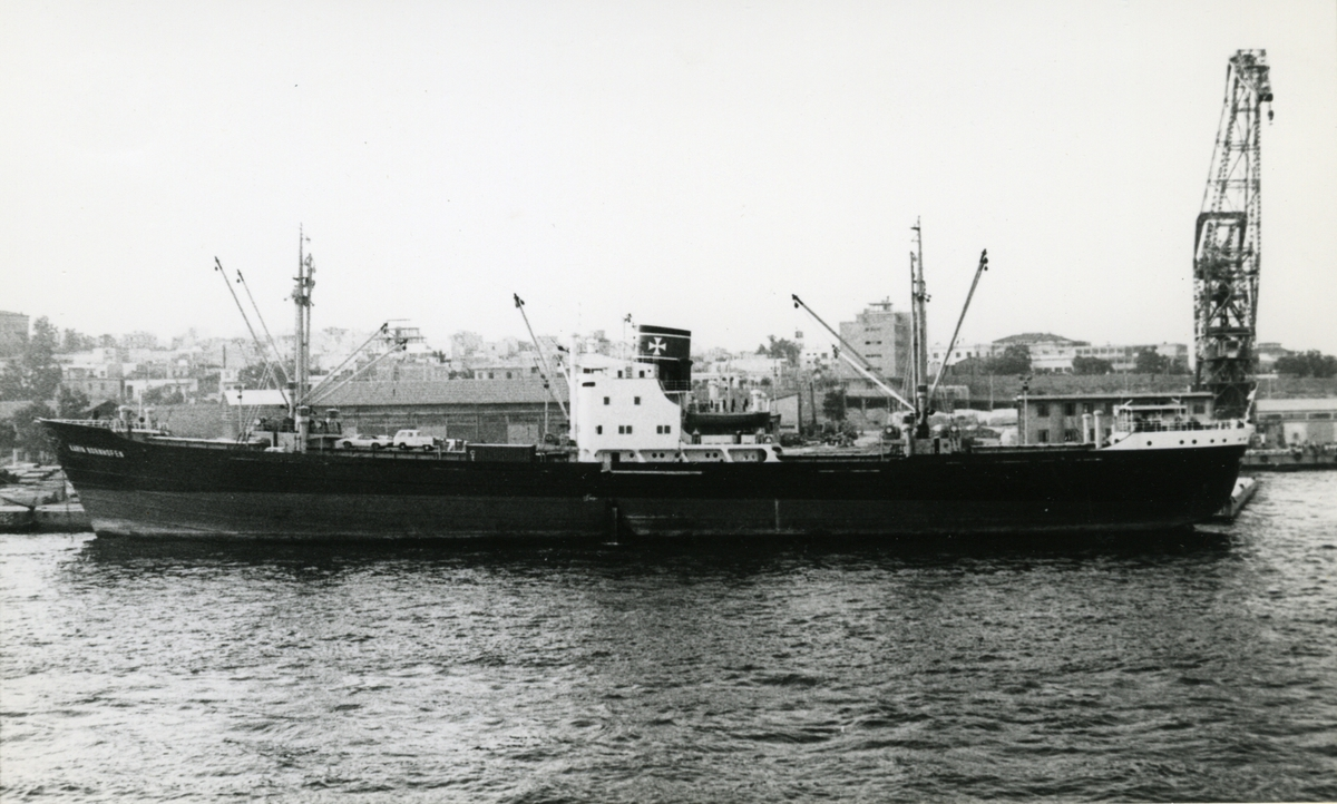 General cargo ship KARIN BORNHOFEN (IMO 5182279) built at Elsflether Werft, Elsfleth (yard № 310, launched: 03-05-1958, delivered: 08-1958), 1971 CORONADO, 1973 HOLSTENBURG, 1978 ANDROS, 1981 ARISTEA T., fire off Pylos 03-07-1982, scuttled nearby 02-11-1982, photo by J. Robert Boman (1926 - 2002), copyright owned by Sjöhistoriska museet.